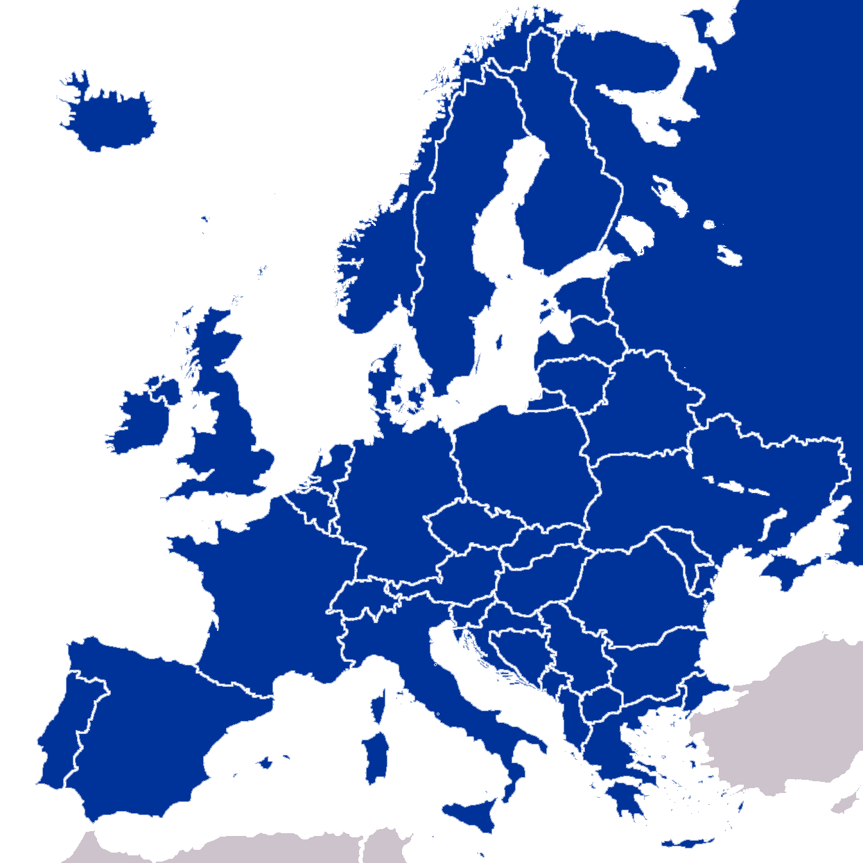 Blank political map of Europe with transparent background